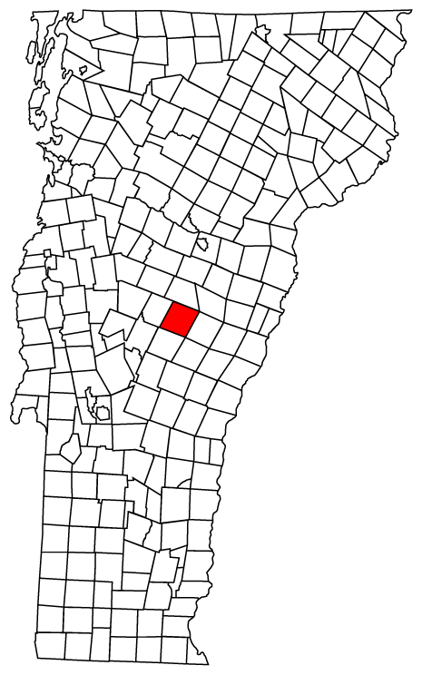 Description: Map of Vermont towns with Randolph highlighted Source: Map created by Jared C. Benedict on 26 March 2004. Copyright: © Jared C. Benedict.